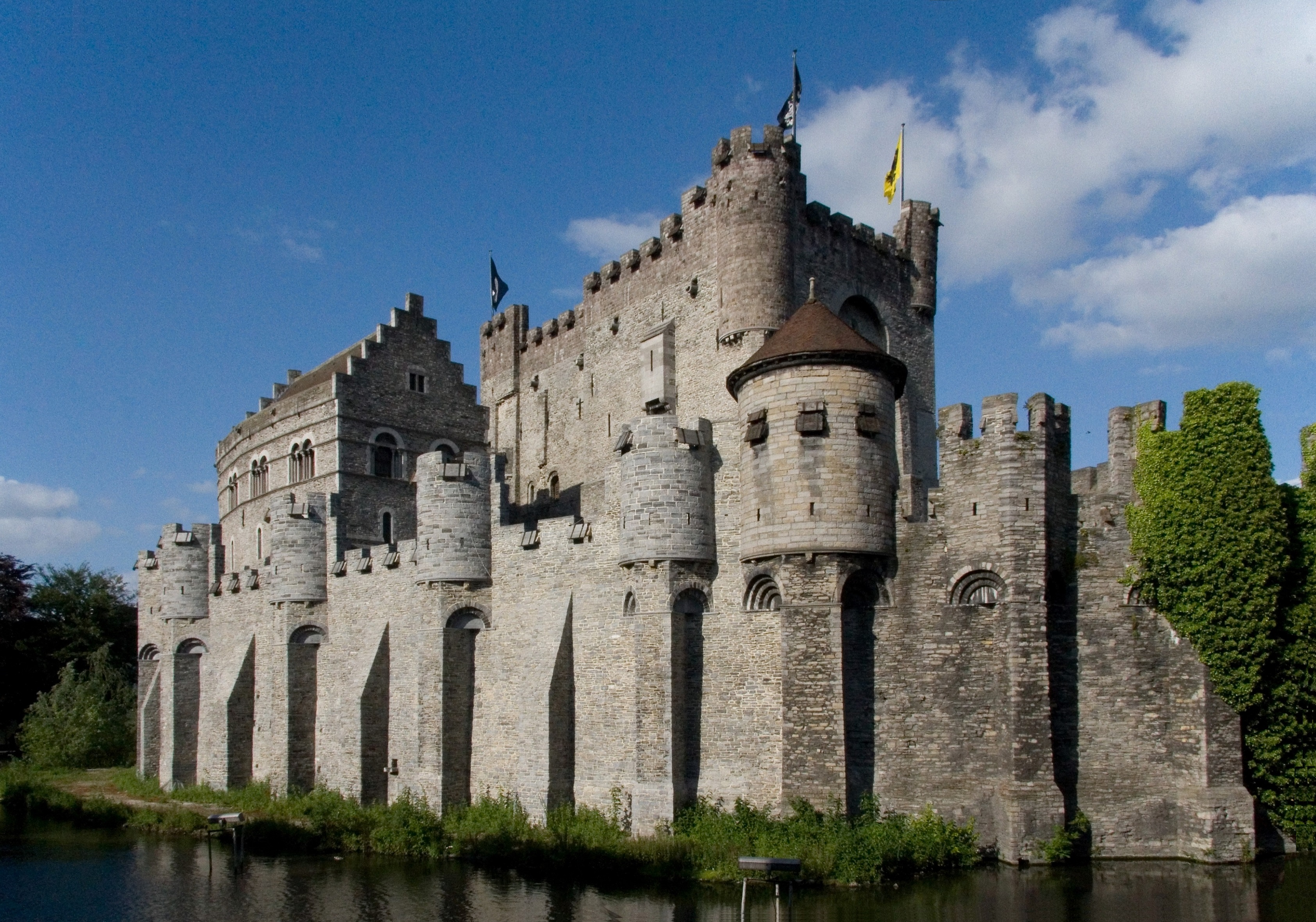 Gravensteen (Gent)